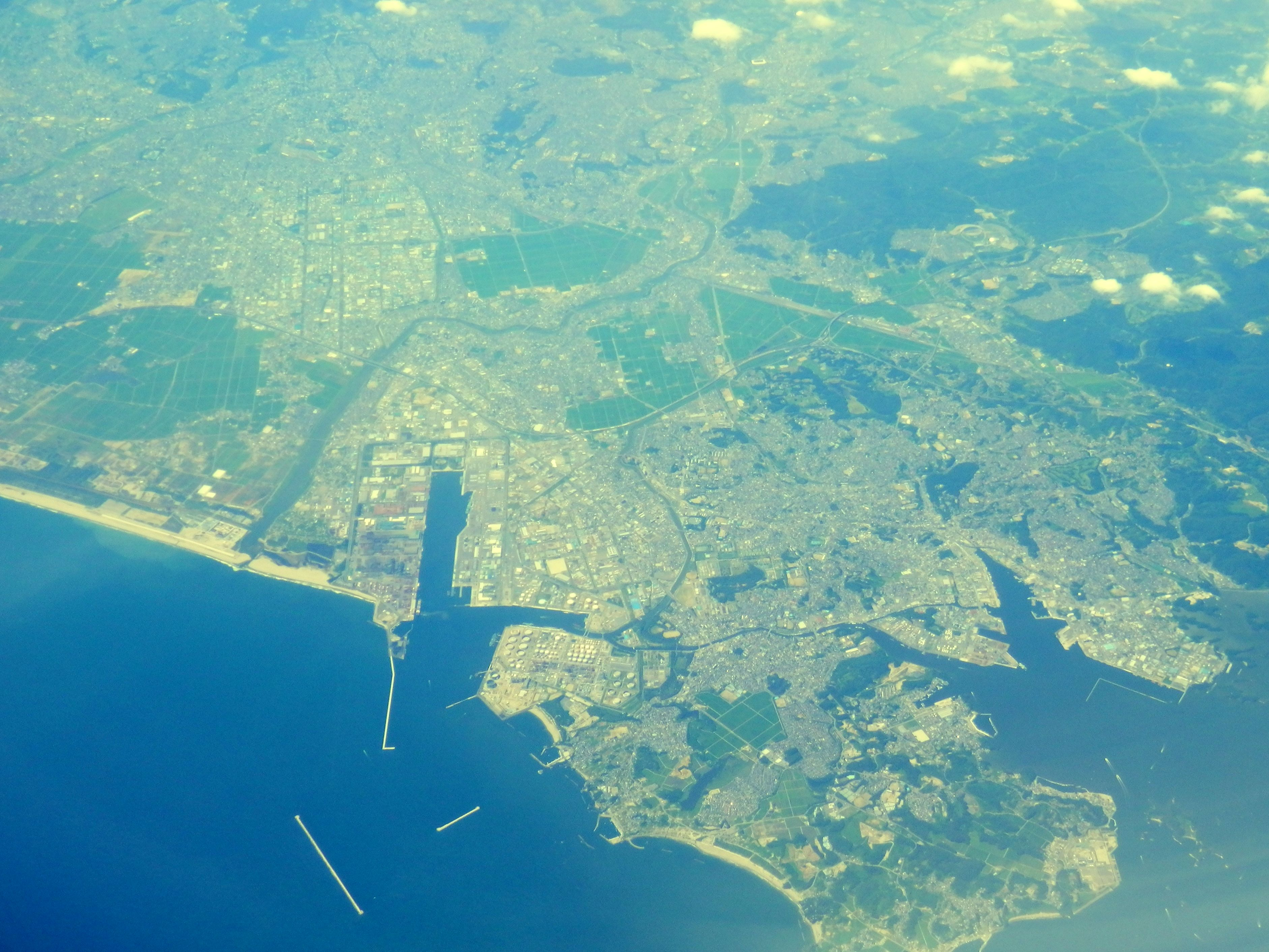 Shiogama-shi and Sendai-shi from an aeroplane